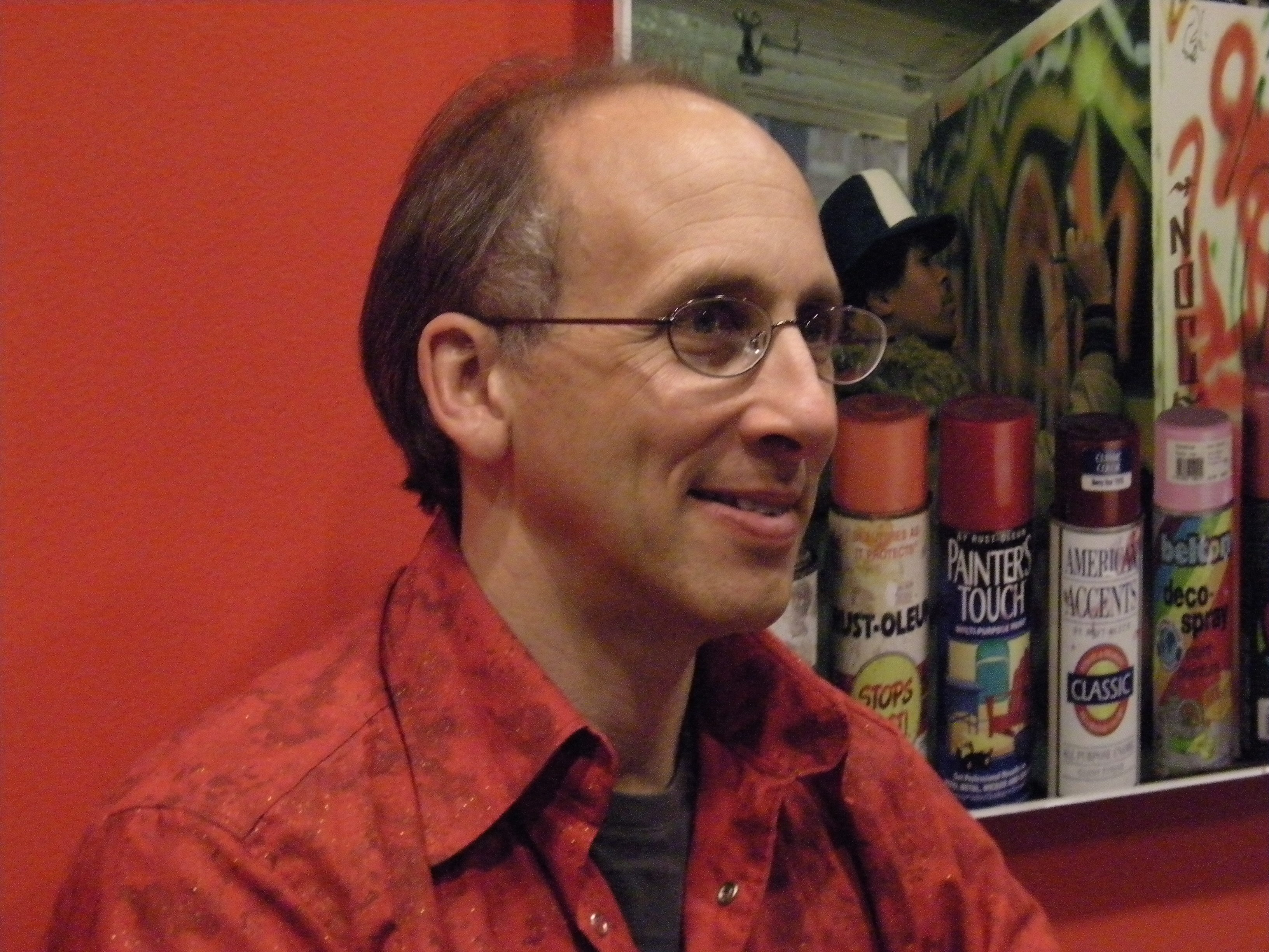 Writer / musician Elijah Wald on the panel "Pop, Politics, and Social Control in the City of Quartz" at the 2008 Pop Conference, Experience Music Project, Seattle, Washington. Wald is author of several books including Narcocorrido: A Journey into the Music of Drugs, Guns, and Guerrillas. He writes (mainly on Latin music) for the Los Angeles Times and teaches blues history at UCLA.